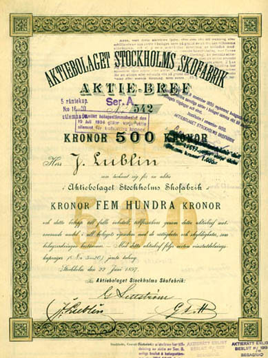 Share in Stockholms Skofabrik